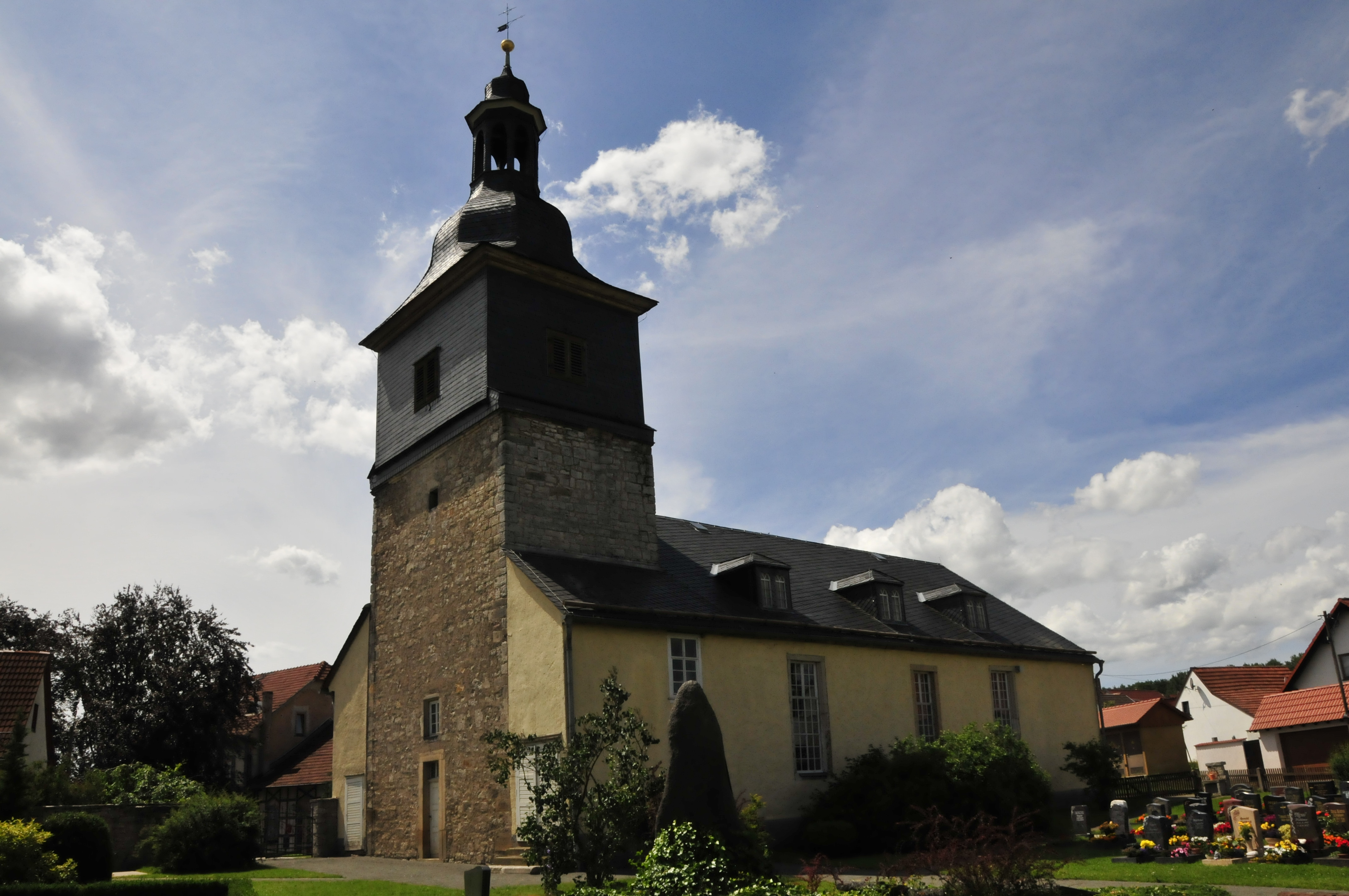 Haina (Thuringia), church